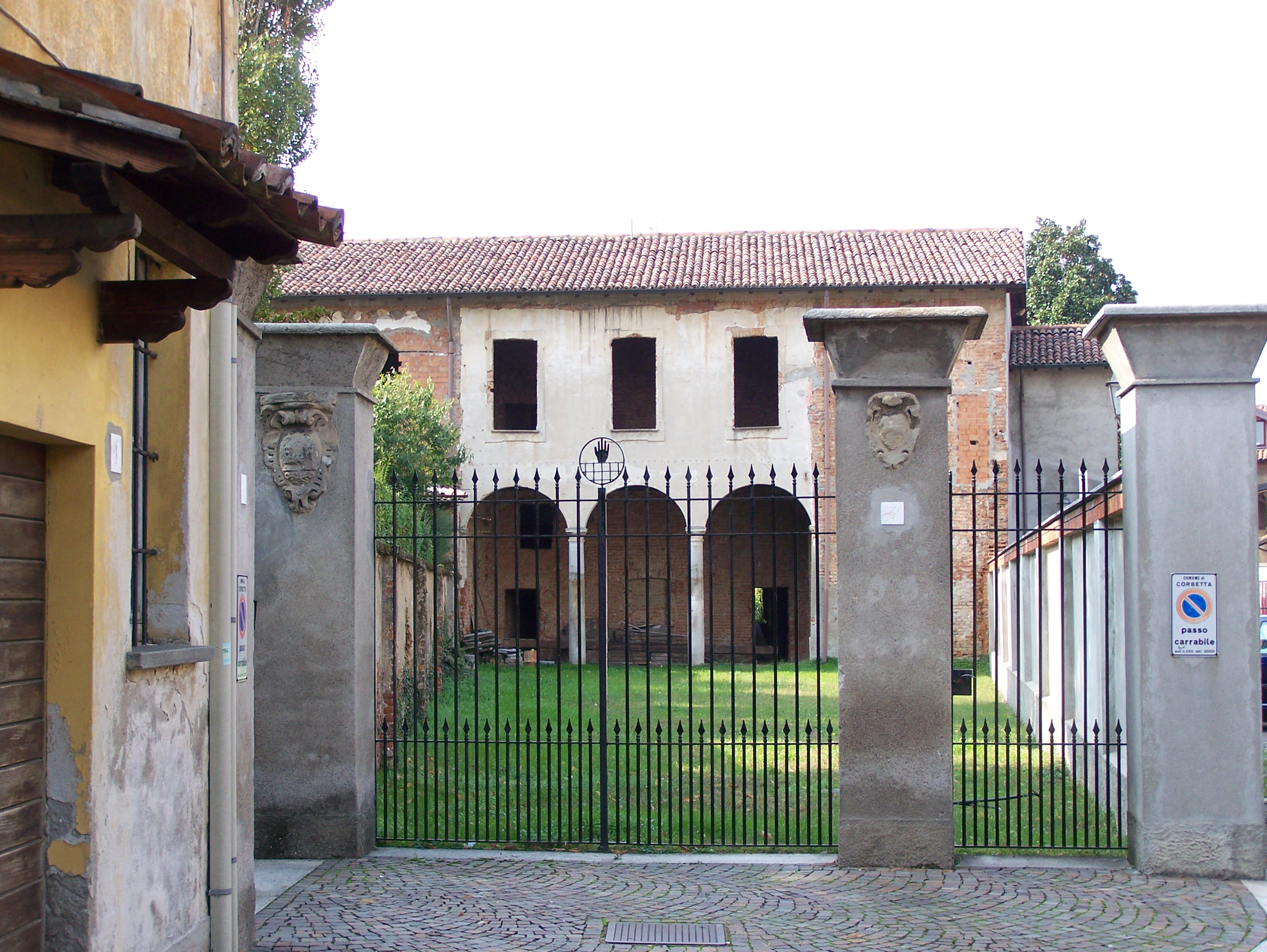 Villa Archinto in Corbetta (MI) - Italy